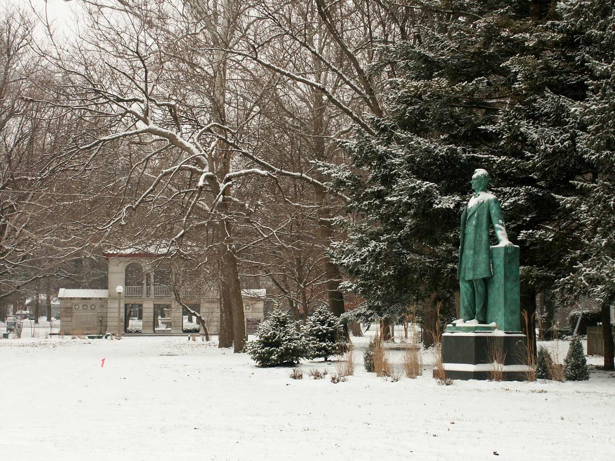 Snowfall on Carle Park, Urbana, IL, 2004-12-26